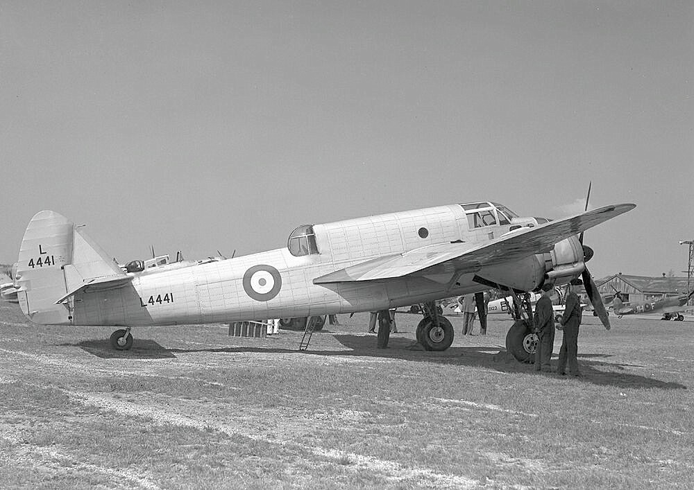 Bristol Beaufort 1st Prototype 1939.